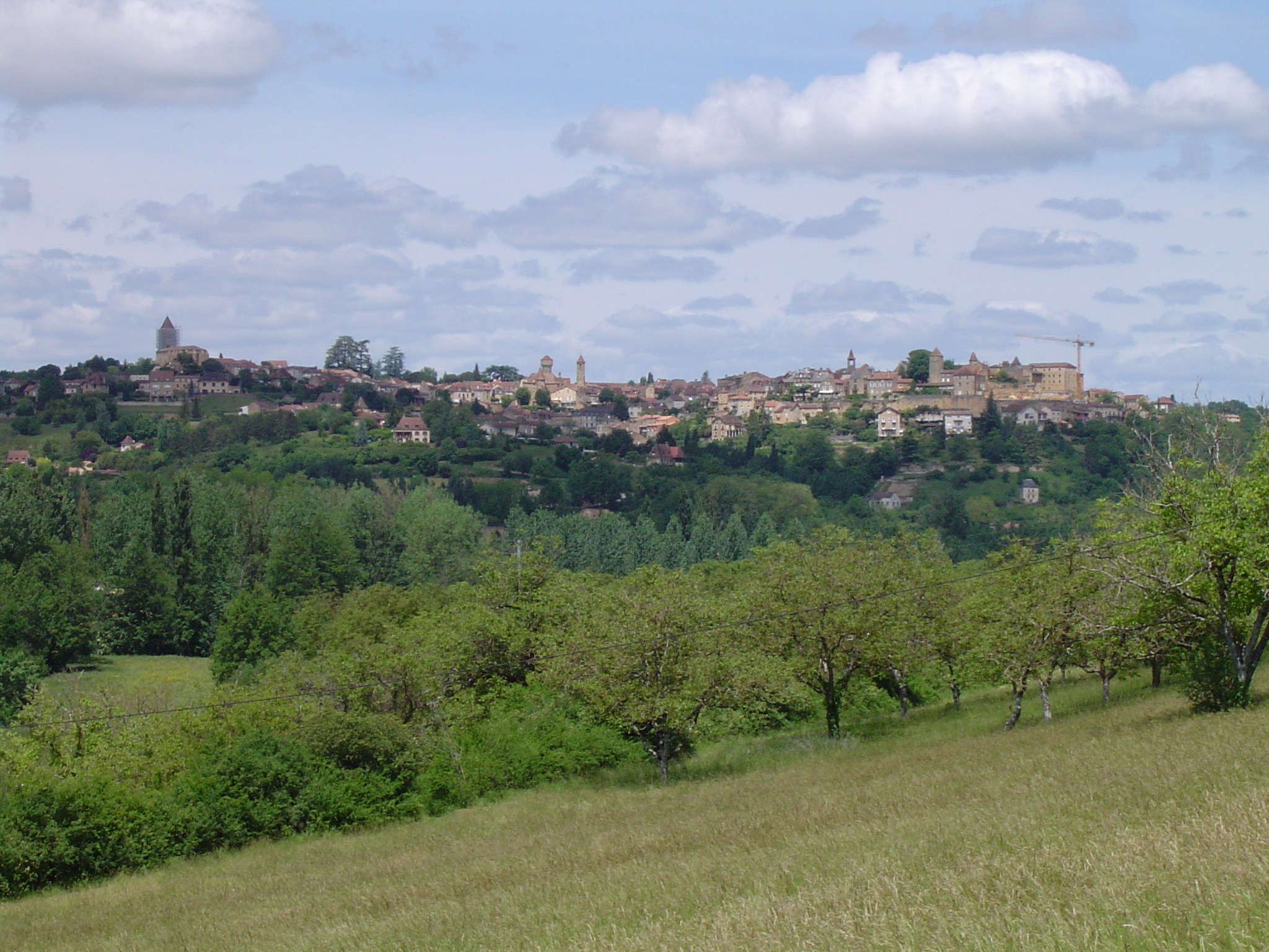 Picture of Belvès in the Dordogne in France, taken from a hill nearby camping "Le Moulin de la Pique" Taken by P. Schuijffel